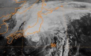 Typhoon Stella on September 15, 1998